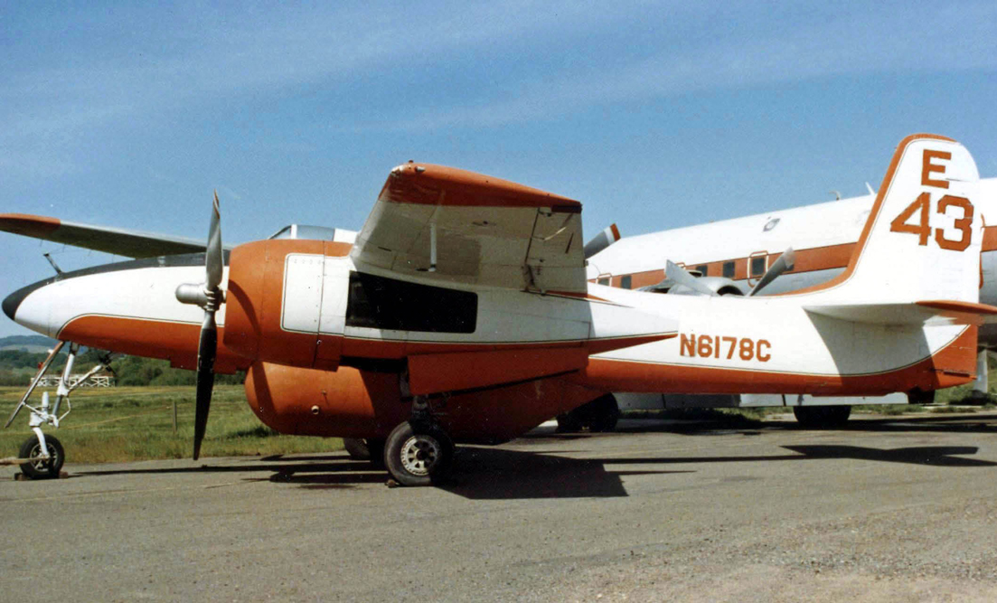 Grumman F7F-3N Tigercat of Sis-Q Flying services in use as a water bomber for firefighting at Santa Rosa airport, California.